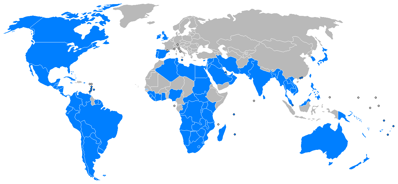 From Image:Anglican_Communion.JPG. Hainan has been recoloured grey and Taiwan Blue (Were these misidentified?), Hong Kong is now clarified and it is GIF format (better for maps). A world map showing the Provinces of the Anglican Communion (Blue).